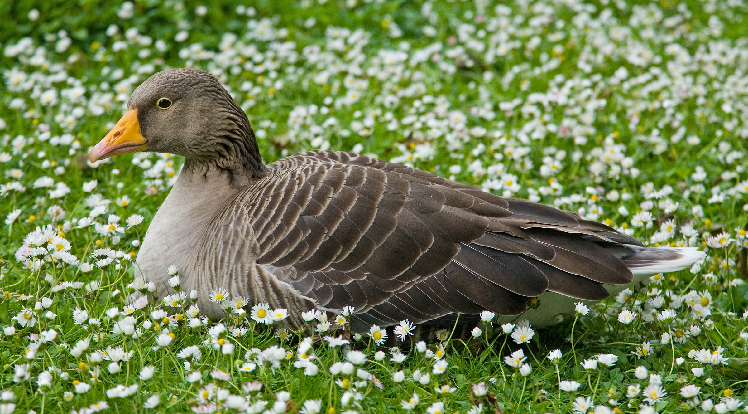 A Greylag Goose in St James's Park, London. Taken with a Canon 5D and 24-105mm f/4L IS at f/5 and 1/125s and ISO 320.